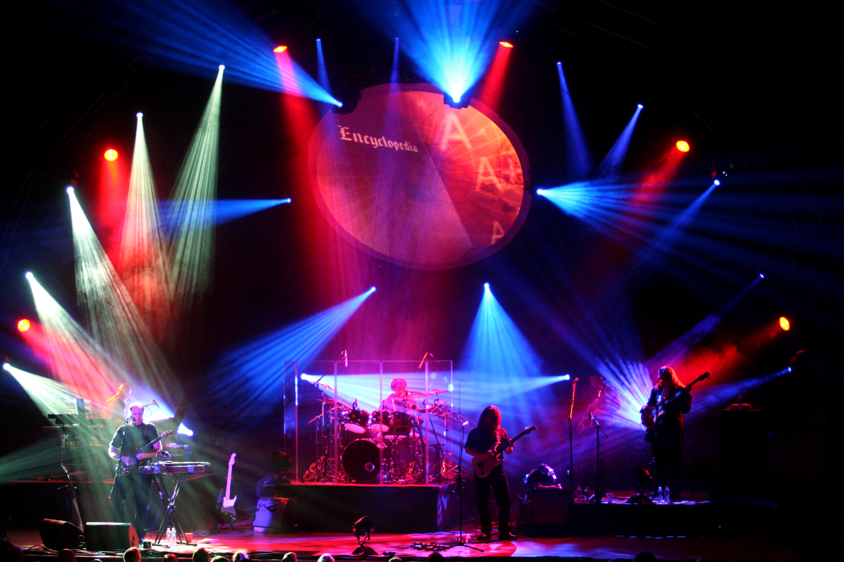 Pink Floyd Experience